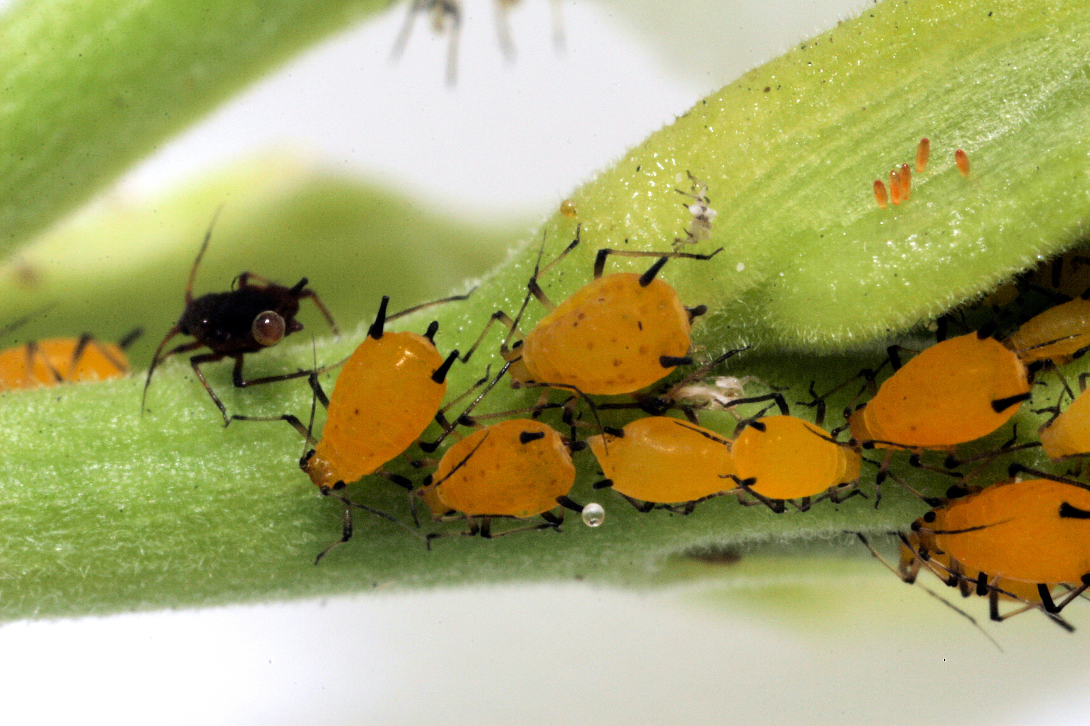 Extreme closeup picture of an Aphid colony. The Aphid eggs are seen to the right.